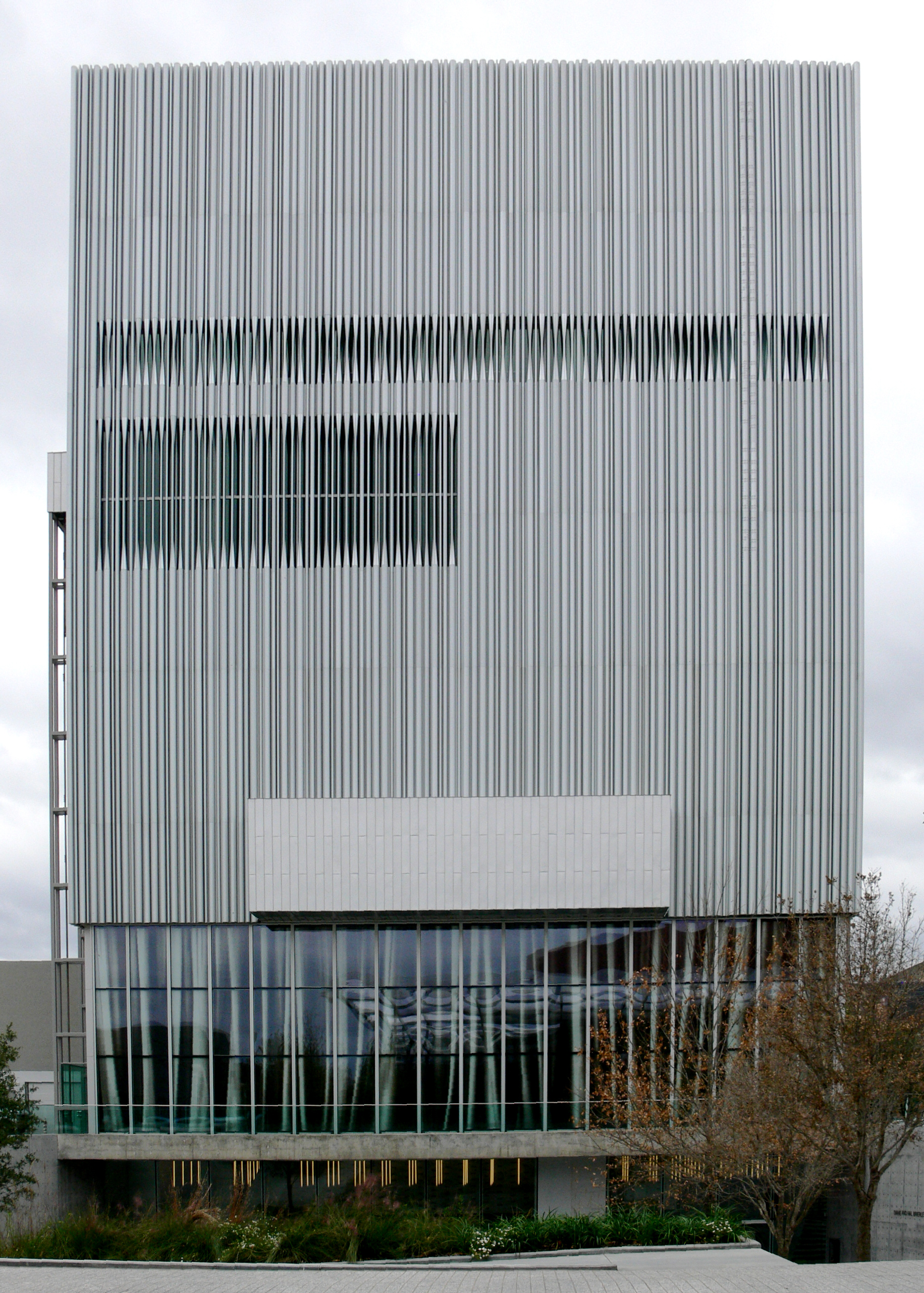 Wyly Theatre, Dallas, Texas